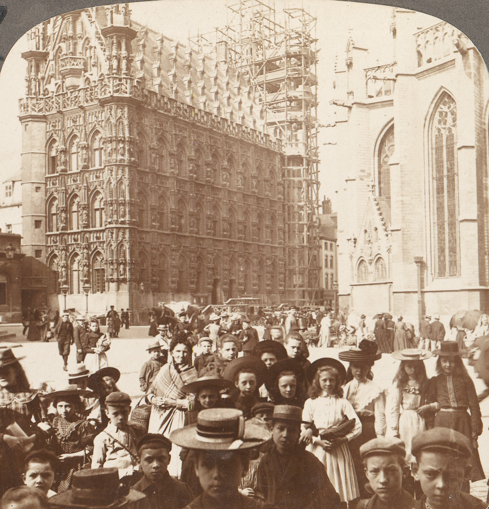 Stereographs; Photographs